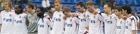 CSKA Moscow, Russian Premier League club.